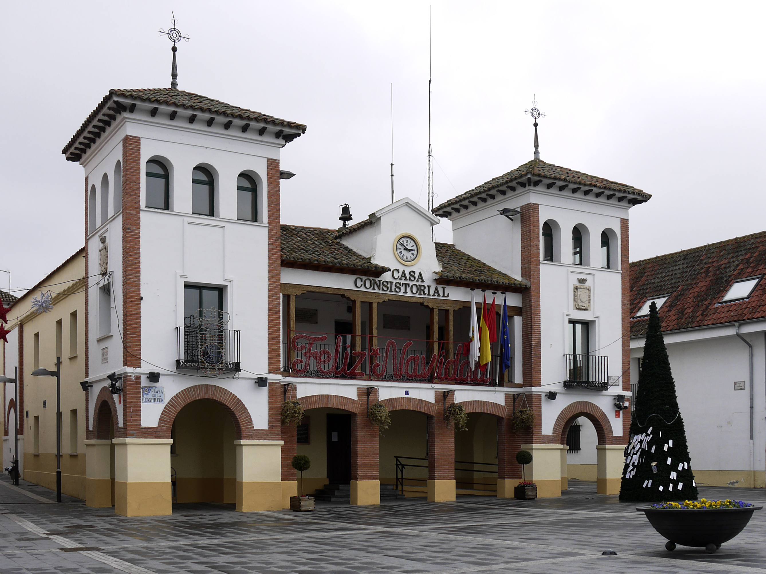 Pinto, Madrid, Spain. Casa Consistorial.